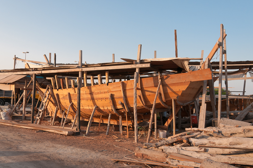 Dhow under construction in the Muharraq shipyard in Muharraq, Bahrain.